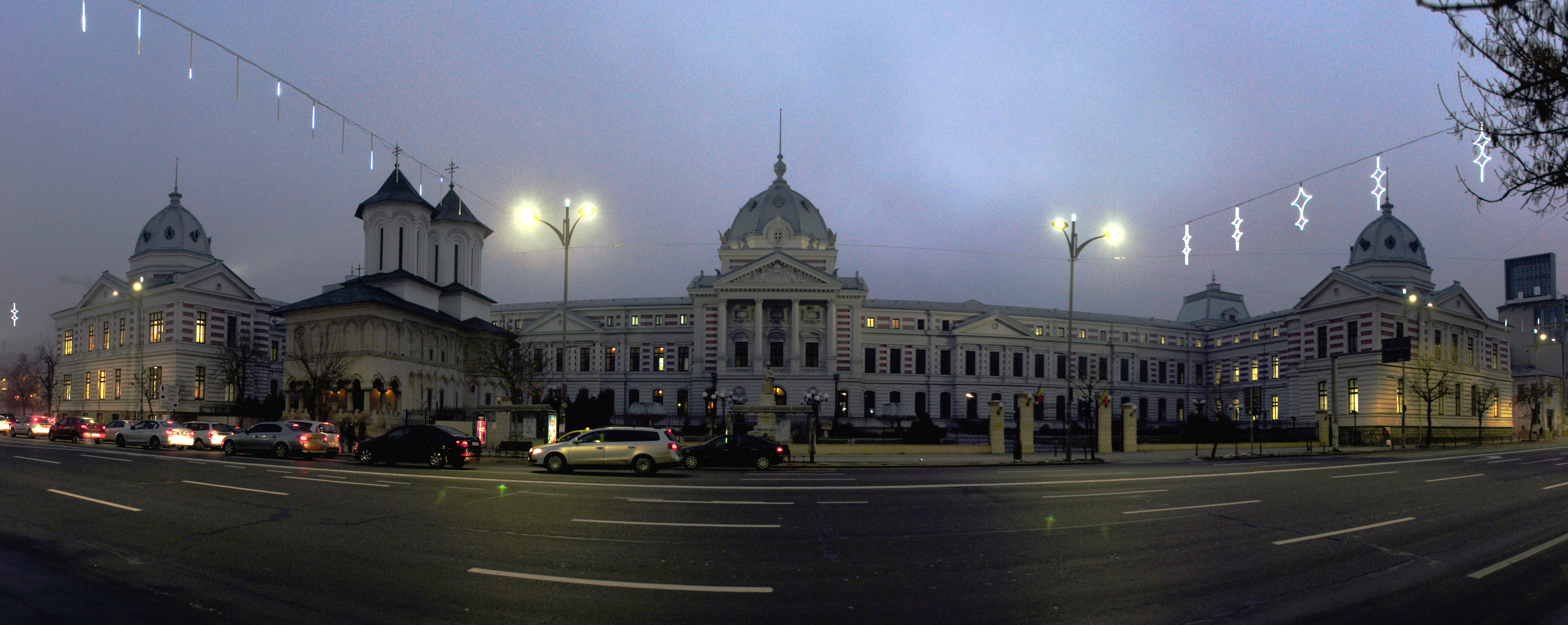 Colţea Hospital, Bucharest, Romania, shortly before dawn.